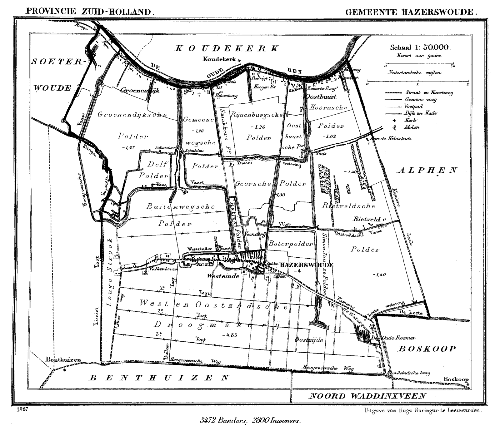 Historic map of Hazerswoude (now part of municipality Rijnwoude), South Holland, the Netherlands